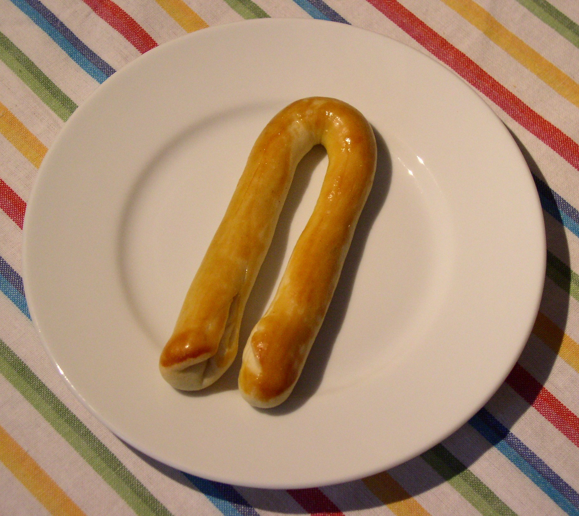 a Meitschibei, a Swiss pastry Source: photo taken by me, August 2005 Photographer: Baikonur